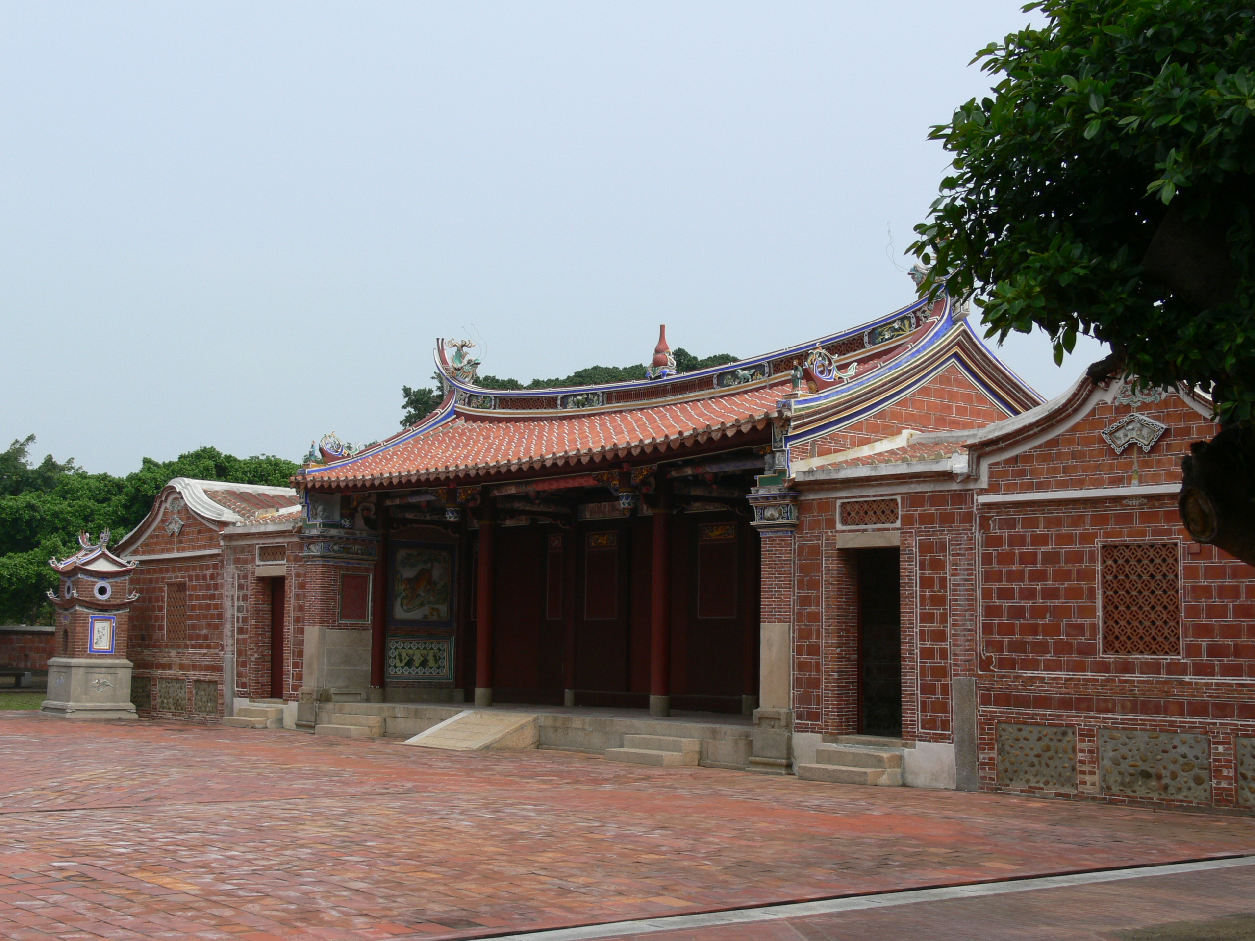 Daodong Tutorial Academy